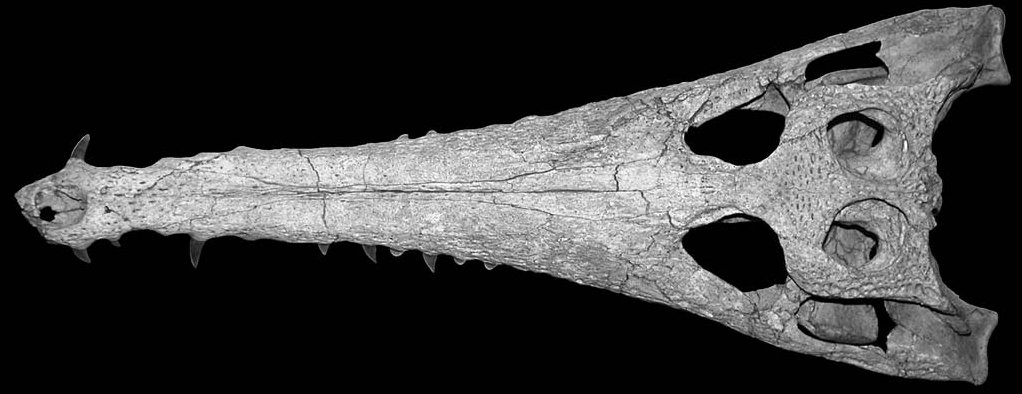 crop of file in file name